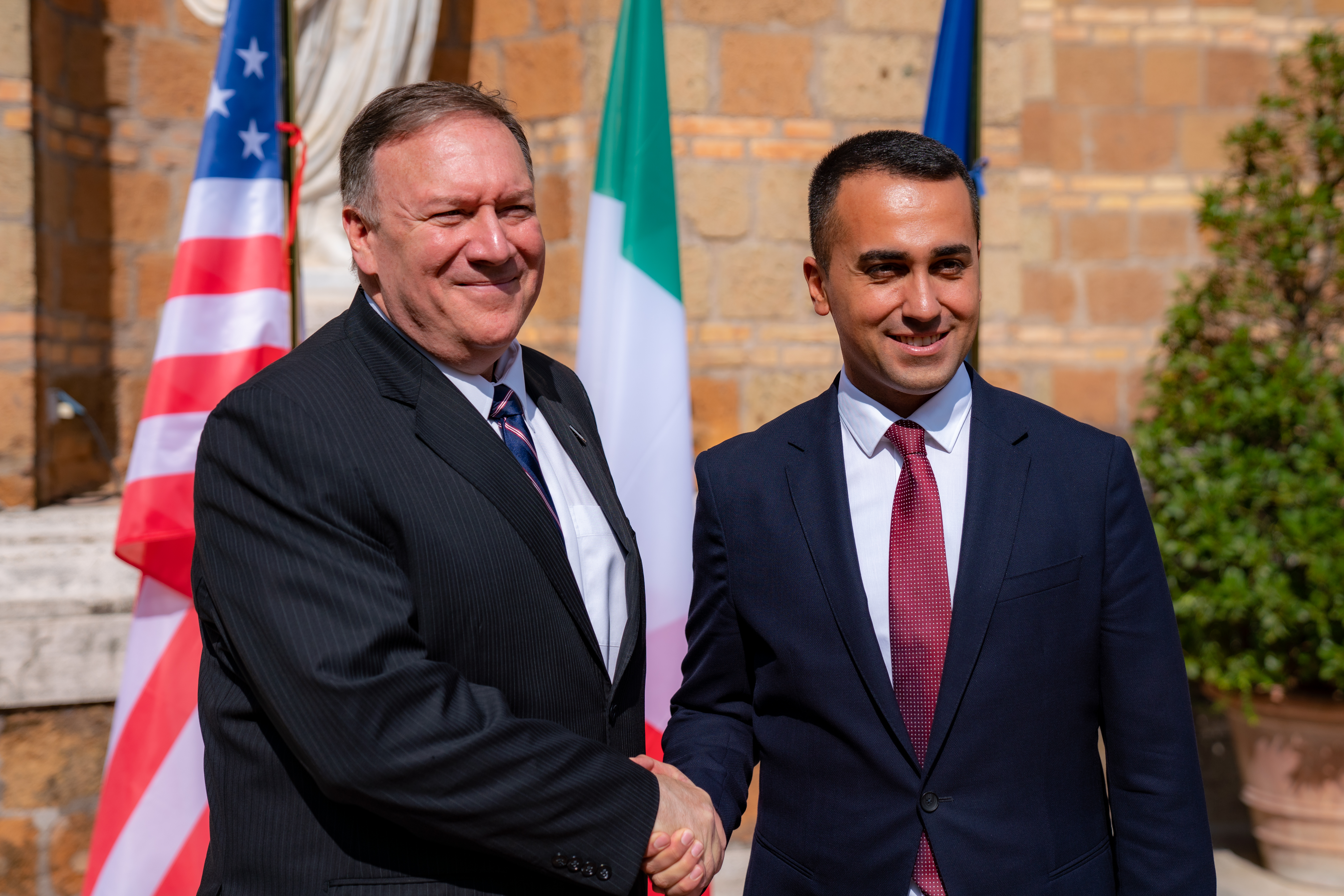 U.S. Secretary of State Michael R. Pompeo meets with Italian Foreign Minister Luigi Di Maio at Villa Madama in Rome, Italy, on October 2, 2019. [State Department photo by Ron Przysucha/ Public Domain]